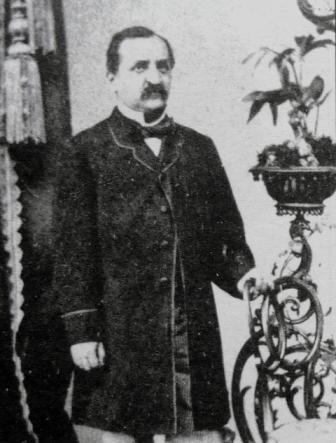 Prince David Bagratovich Bagration-Gruzinsky